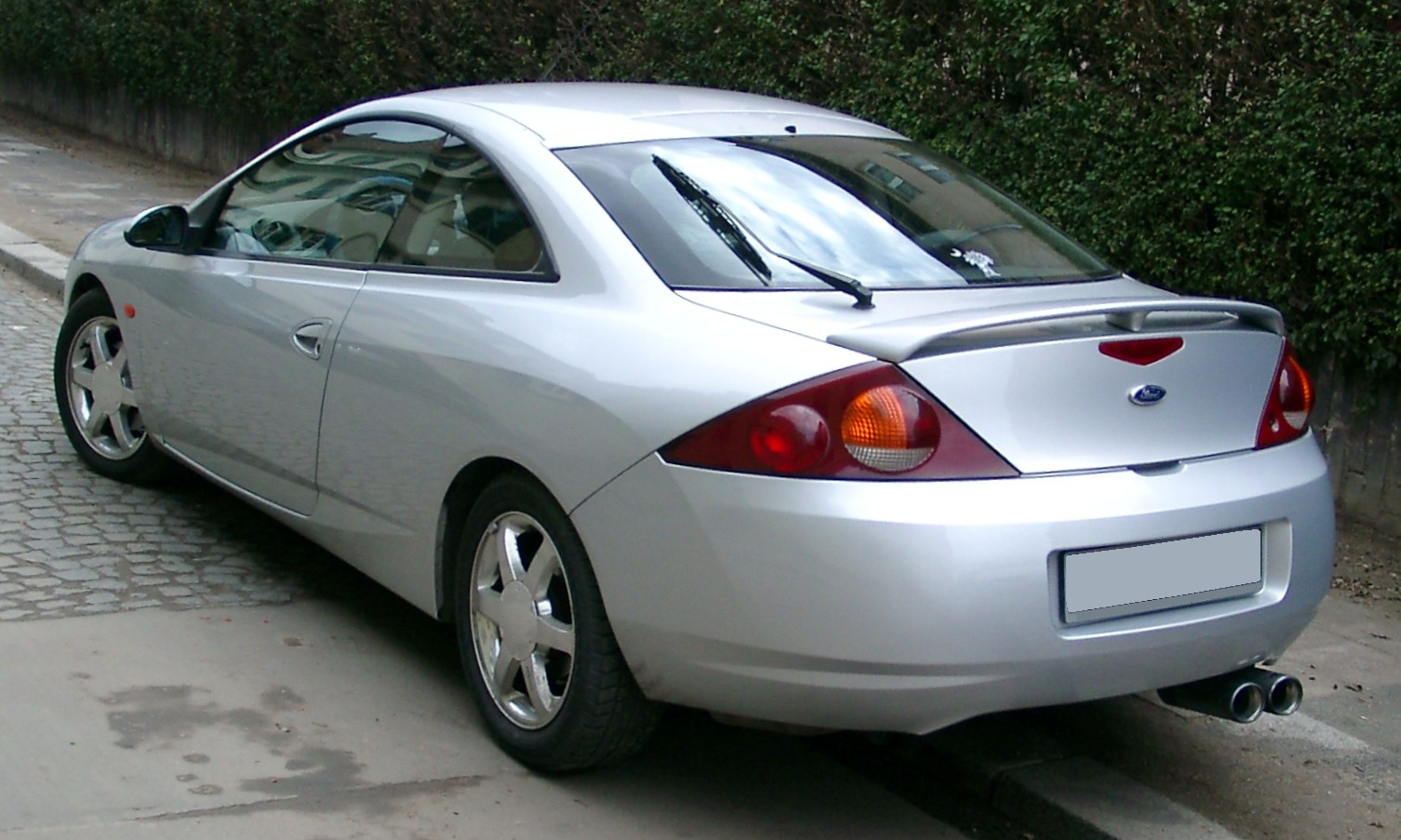 Ford Cougar